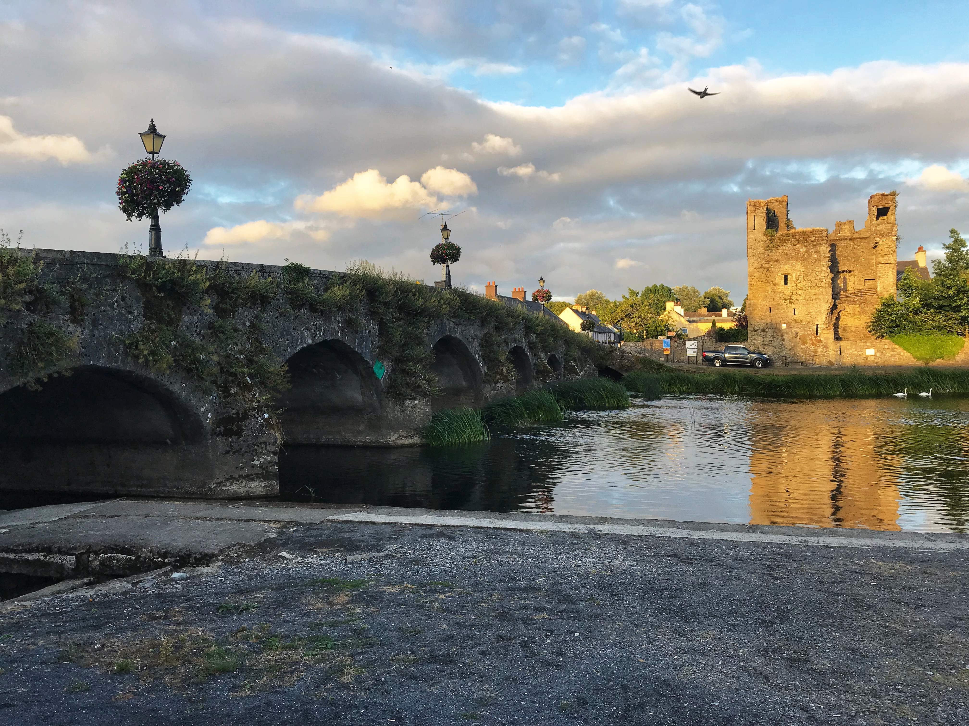 County Carlow, Leighlinbridge Bridge. Wikidata has entry Q55048983 with data related to this item.